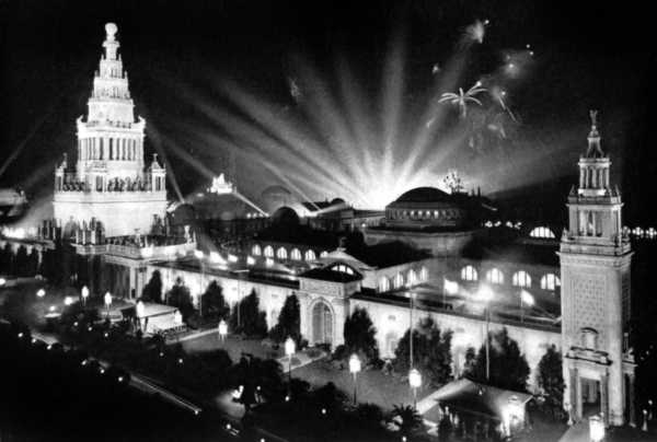 "Artificial light not only reveals the beauty of decoration and architecture but enthralls mankind with its own unlimited powers", picture of the Panama-Pacific International Exposition .